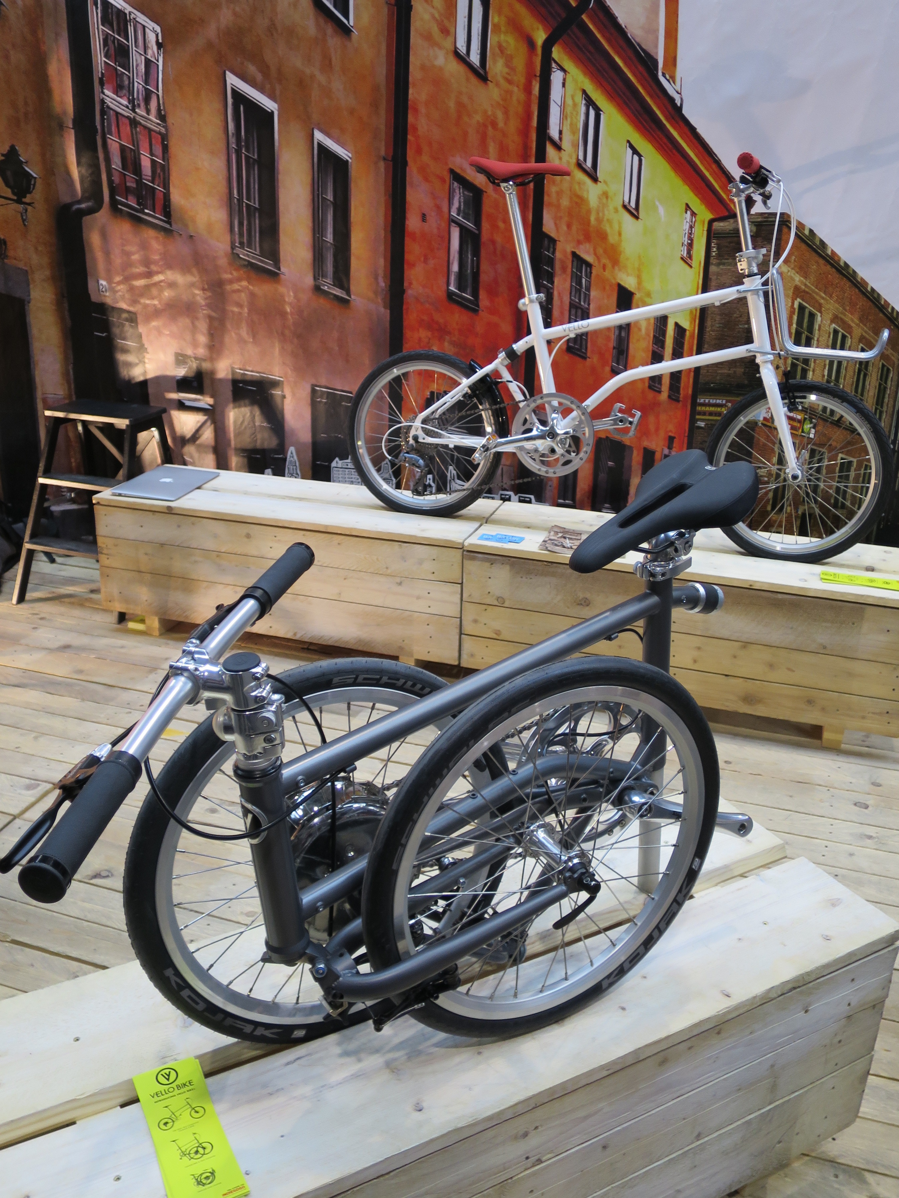 Vello folding bike Berliner Fahrradschau 2017.